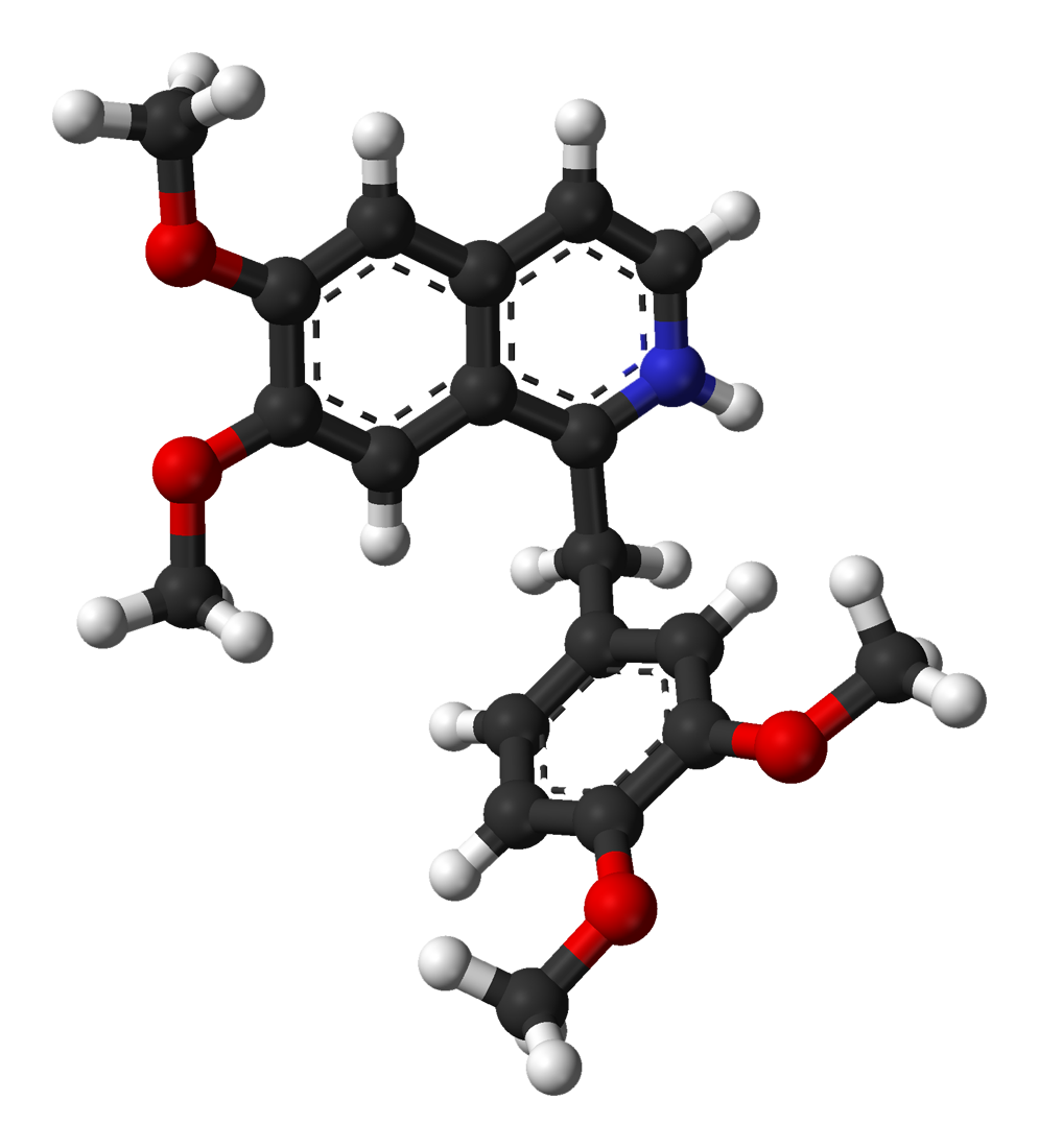 Ball-and-stick model of the papaverine molecule, C20H21NO4. X-ray crystallographic data from Z. Kristallogr. (1996) 211, 649-650.